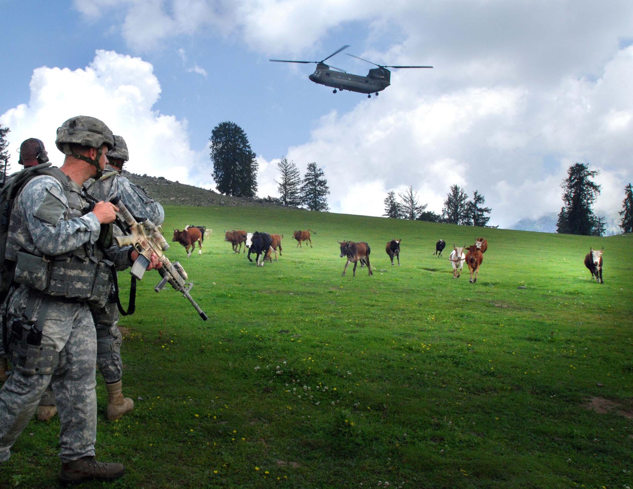 365 - A Soldier from Headquarters and Headquarters Troop, 1st Squadron, 91st Cavalry Regiment (Airborne), watches cattle make room while a CH-47 helicopter prepares to land on Landing Zone Shetland during Operation Saray Has July 19 near Forward Operating Base Naray, Afghanistan. (U.S. Army Photo by Sgt. Brandon Aird) US Army